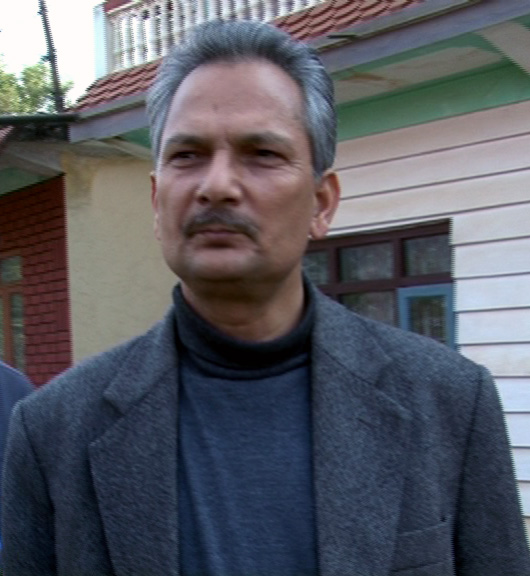 Leader of CPN U Maoist